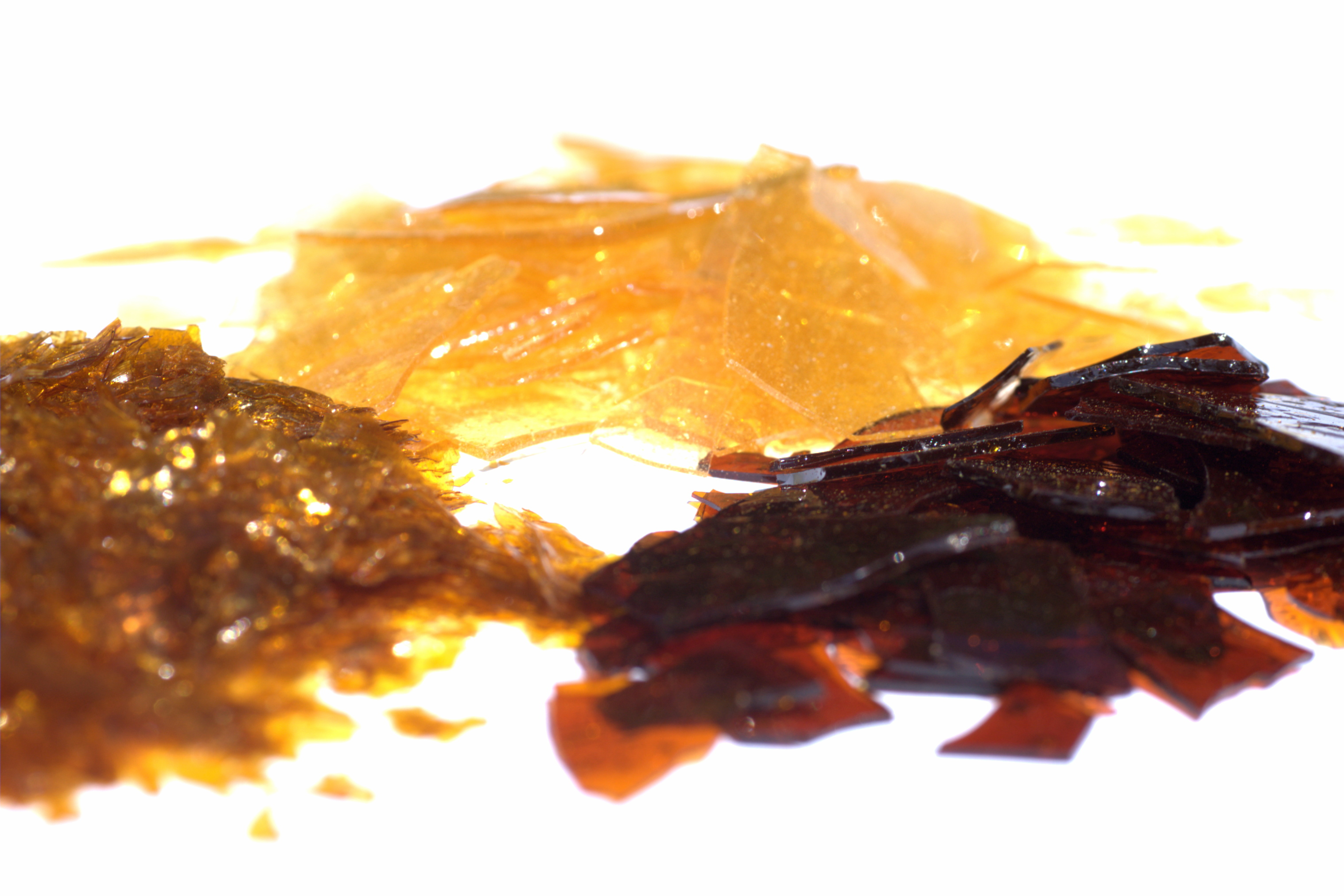 Shellac in different colours.